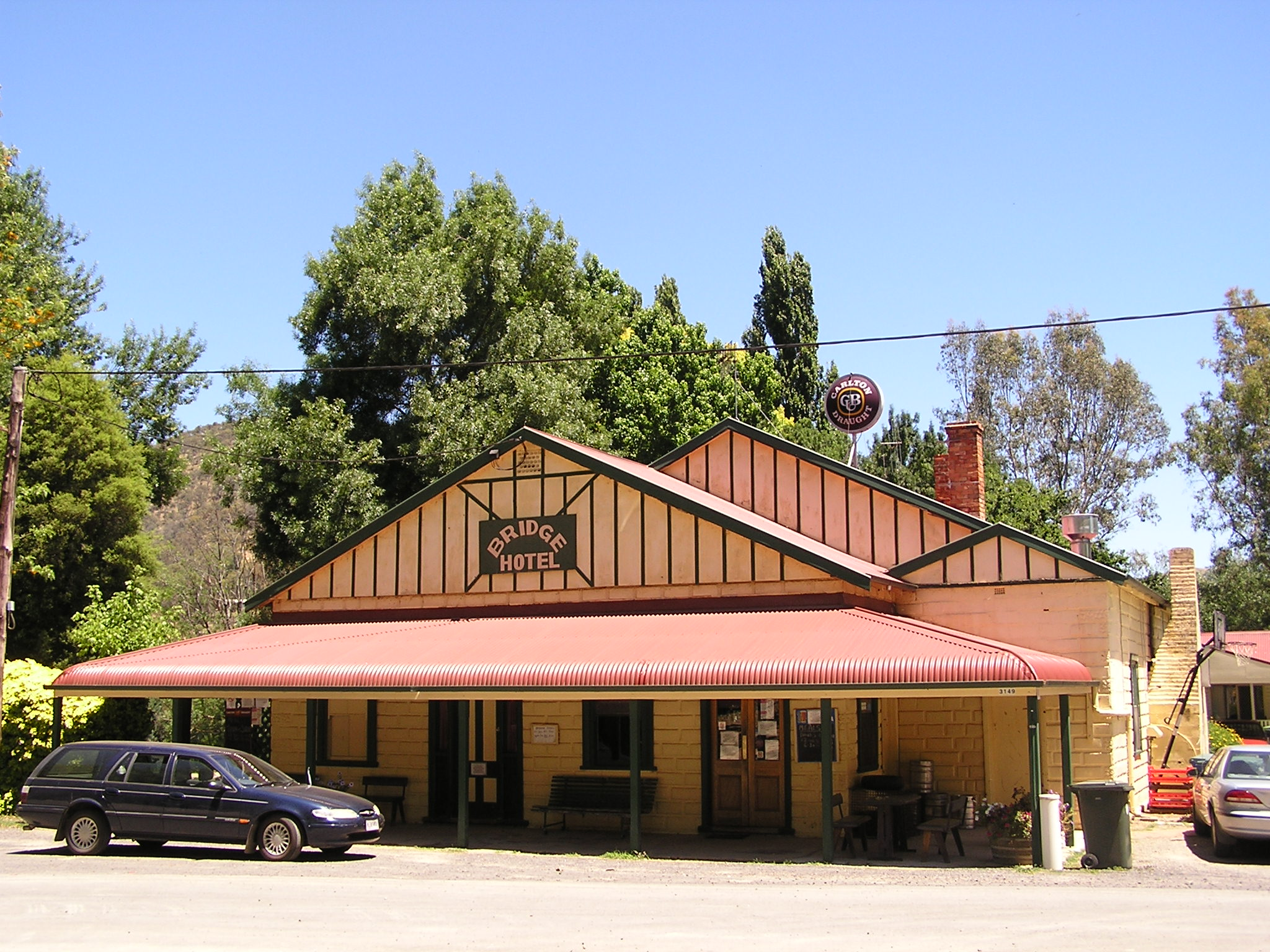 Bridge Hotel atJingellic, New South Wales, Australia